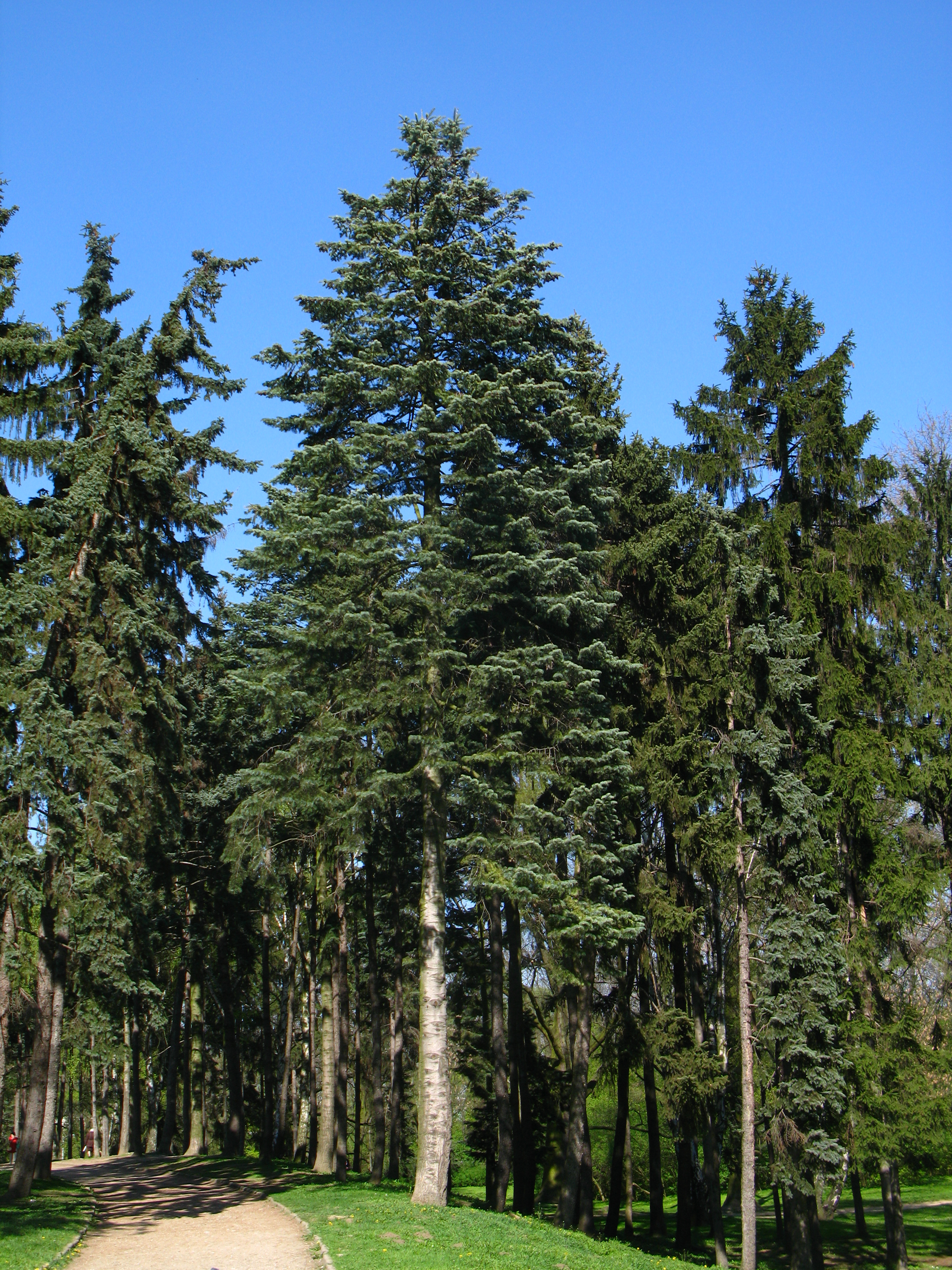 Abies concolor in Park Skaryszewski